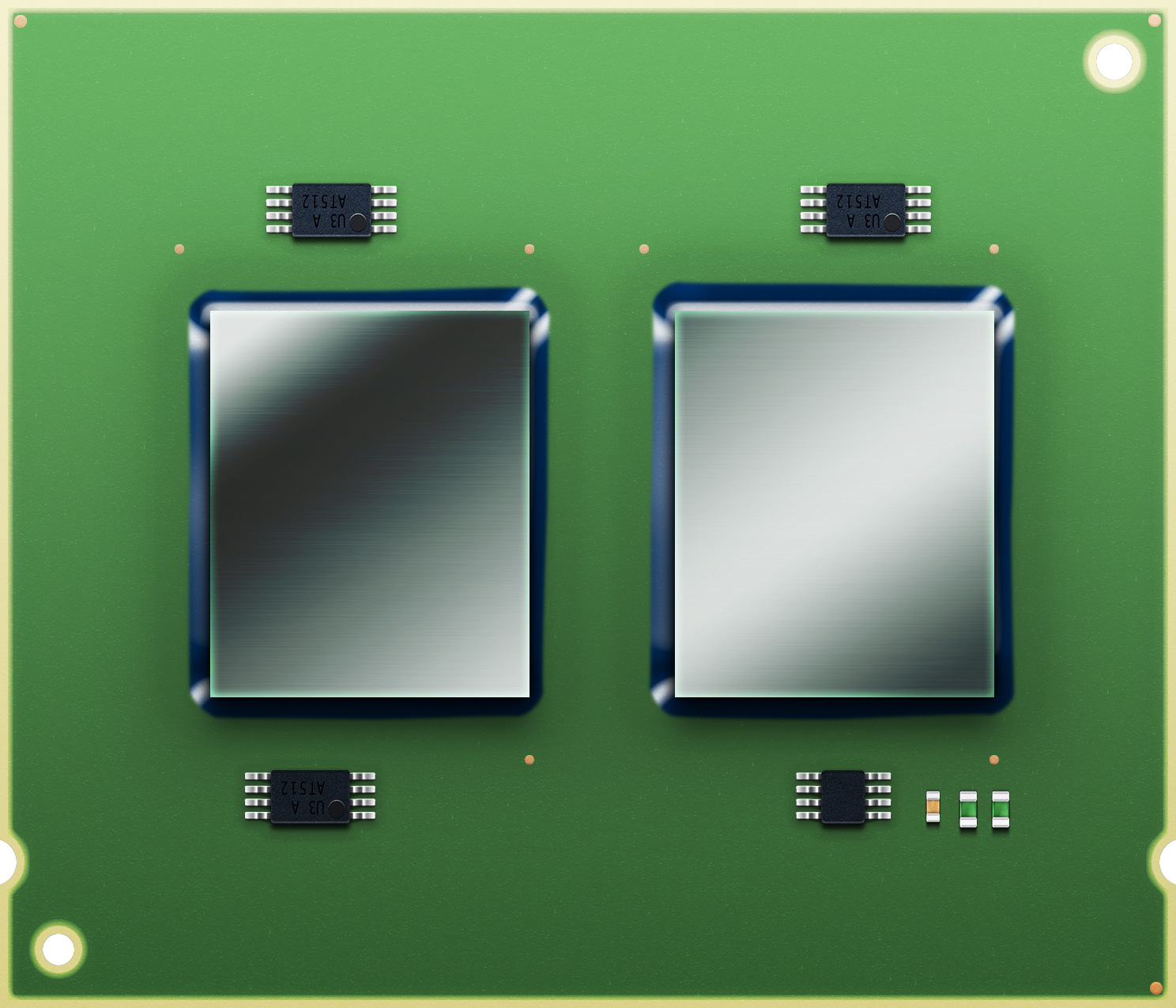 An illustration of two 6-core IBM POWER8 microprocessors mounted on a dual chip module (DCM). They are manufactured on a 22 nm copper SOI CMOS process mounted on a organic land grid array substrate. Inspiration for the image comes from numerous pictures on the Internet and IBM.